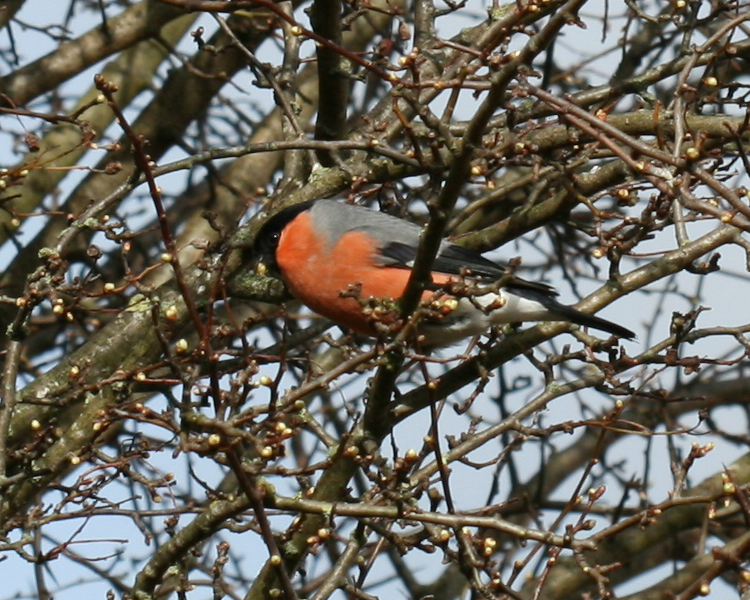 Bullfinch Pyrrhula pyrrhula, Scotland.